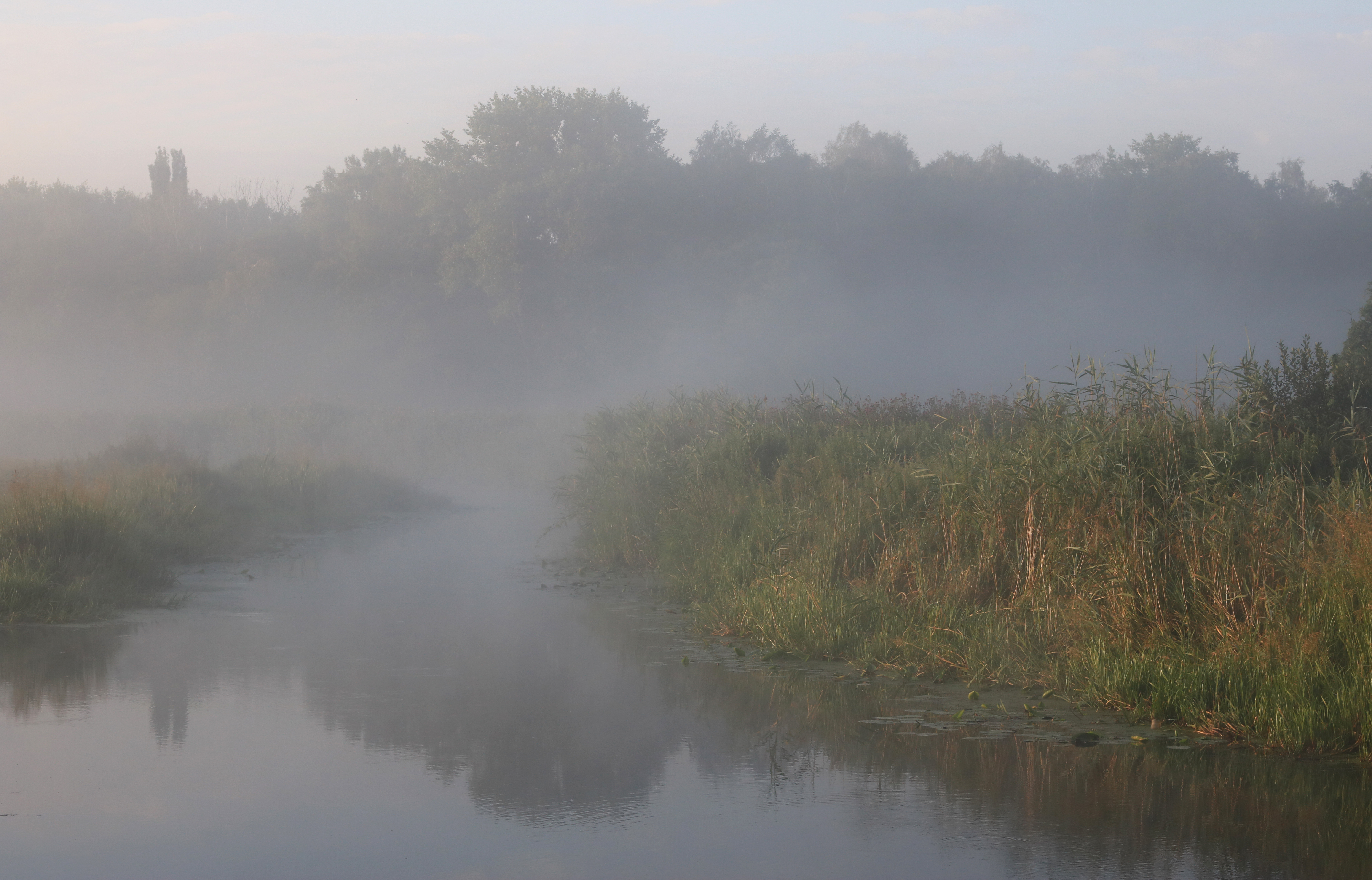 Desna river, feeder of the Southern Bug, at meadow. Ukraine, Vinnytsia Raion